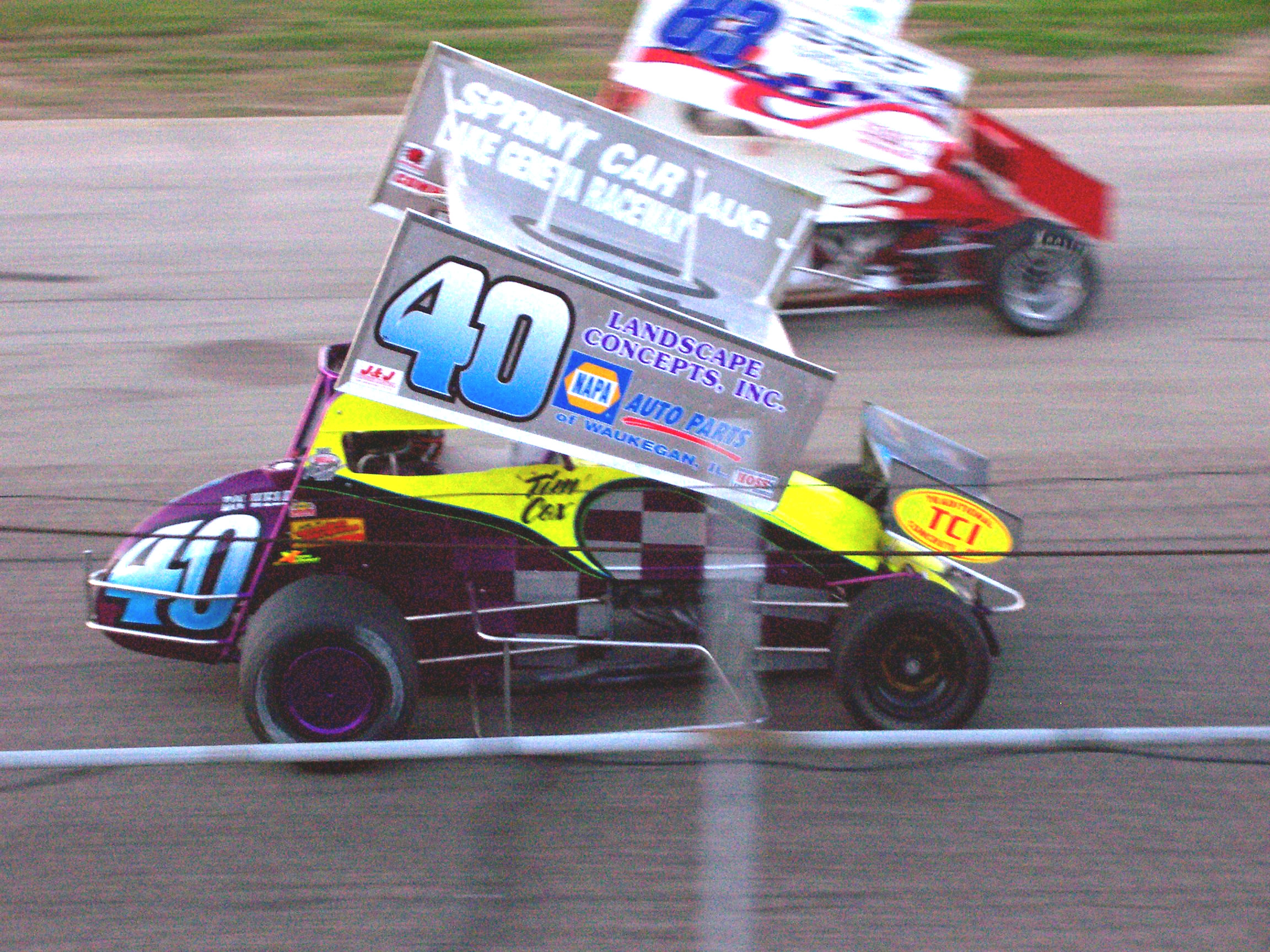 HOSS(Hoosier Outlaw Sprint Series) driver Tim Cox after setting the ultimate track qualifying record at the final official stockcar race at Lake Geneva Raceway in Lake Geneva, Wisconsin, United States.